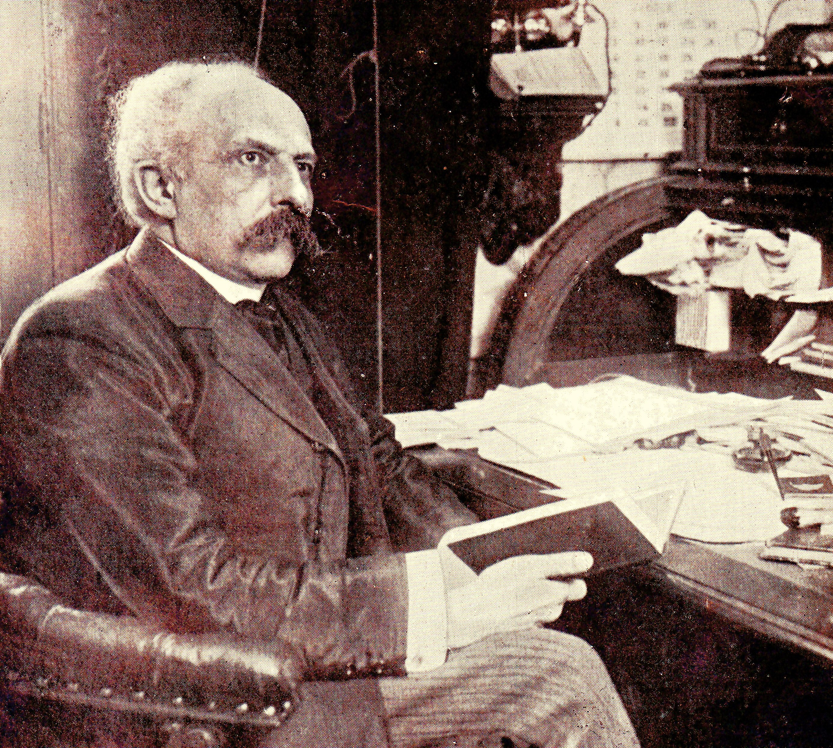 W.G. van Nouhuys